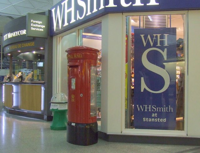 Stansted Airport Shops One of the many WH Smith shops at the airport, this one is landside and has one of at least three Royal Mail transparent pillar boxes to be seen at the airport.